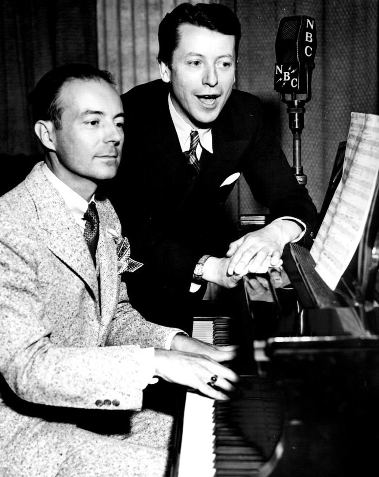 Photo of composer and playwright John Laurence Seymour (at piano) with vocalist John Teel.